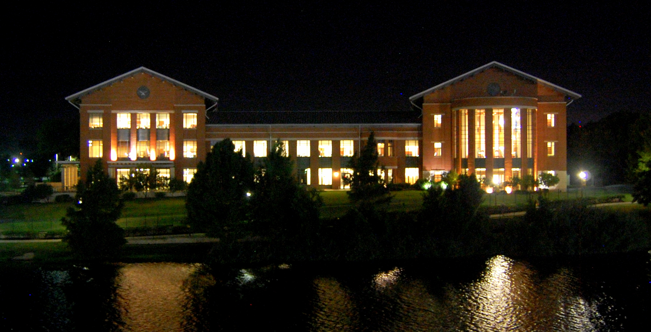 Baylor University School of Law after night on the banks of the Brazos River.